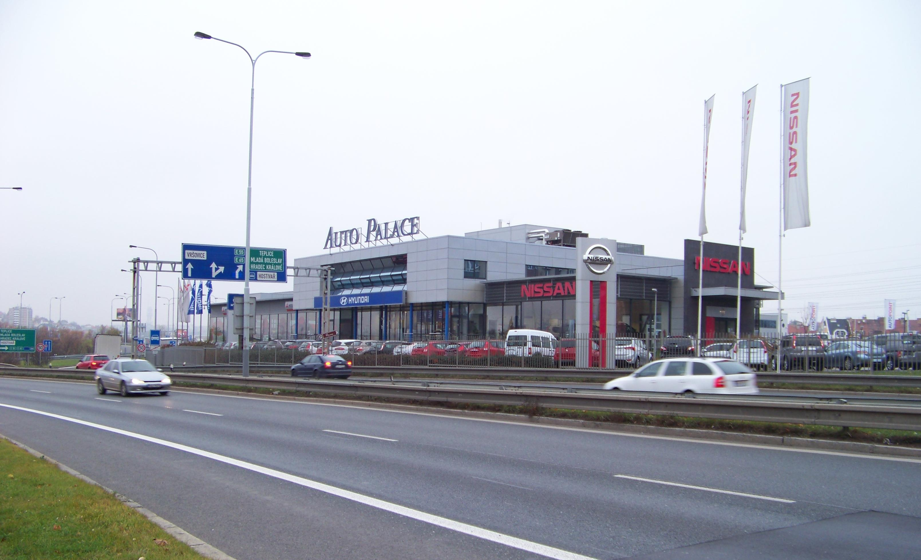 Prague-Záběhlice-Spořilov. Spořilovská street, Auto Palace.